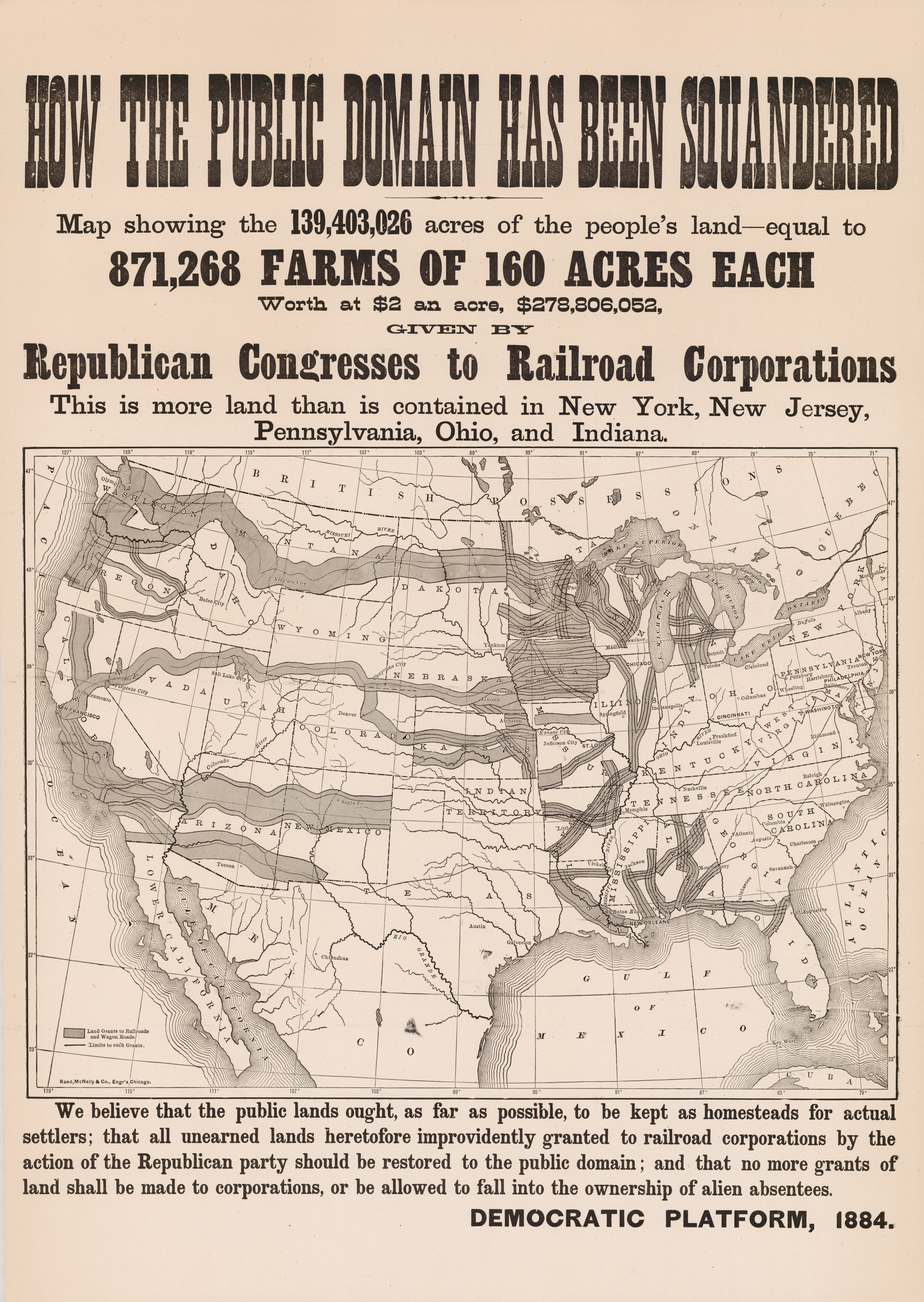 Map showing the 139,403,026 acres of the people's land -- equal to 871,268 farms of 160 acres each. Worth a $2 an acre, $278,806,052, given by Republican Congresses to Railroad Corporations. This is more land than is contained in New York, New Jersey, Pennsylvania, Ohio, and Indiana.